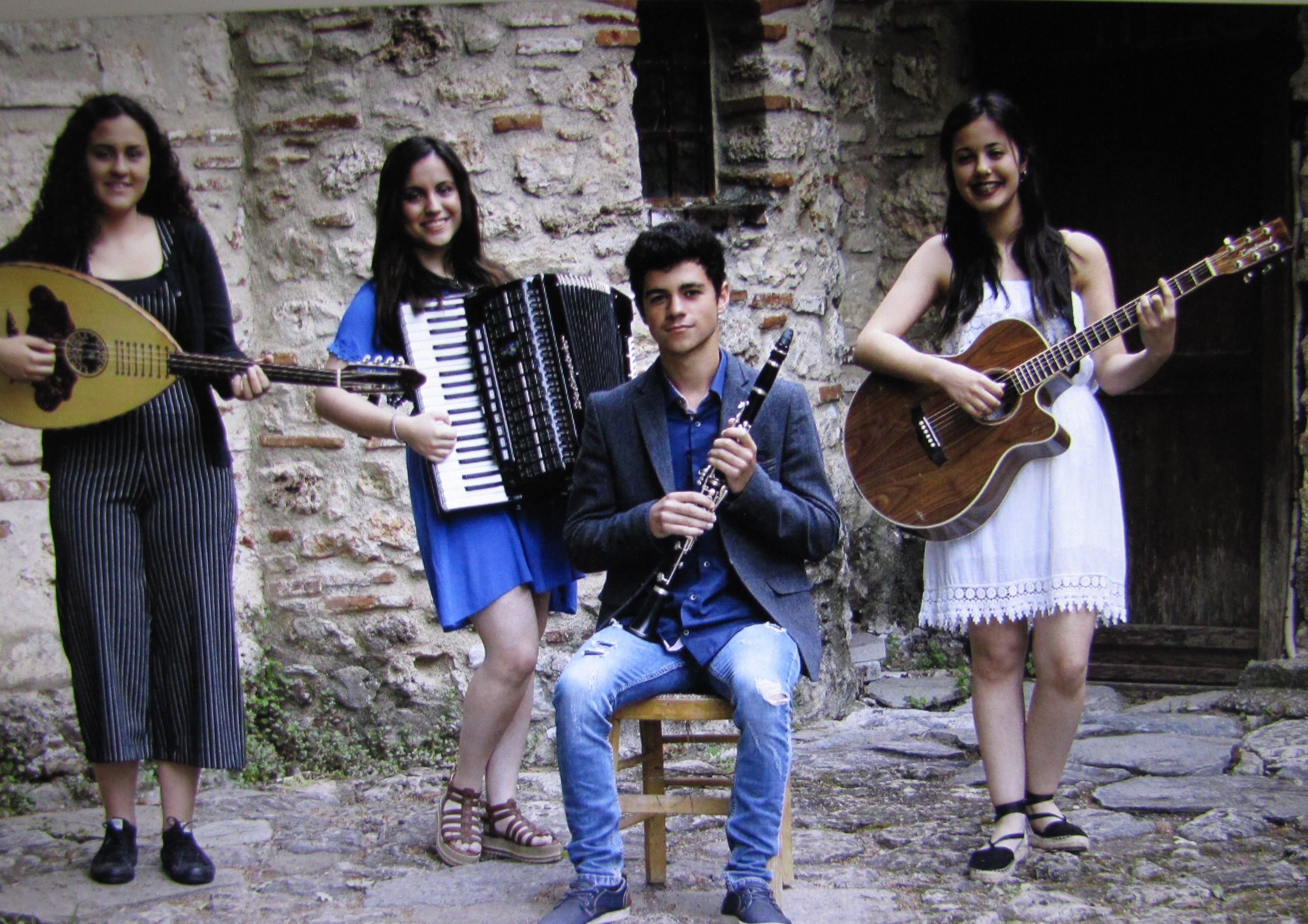 Estia Folkmusic